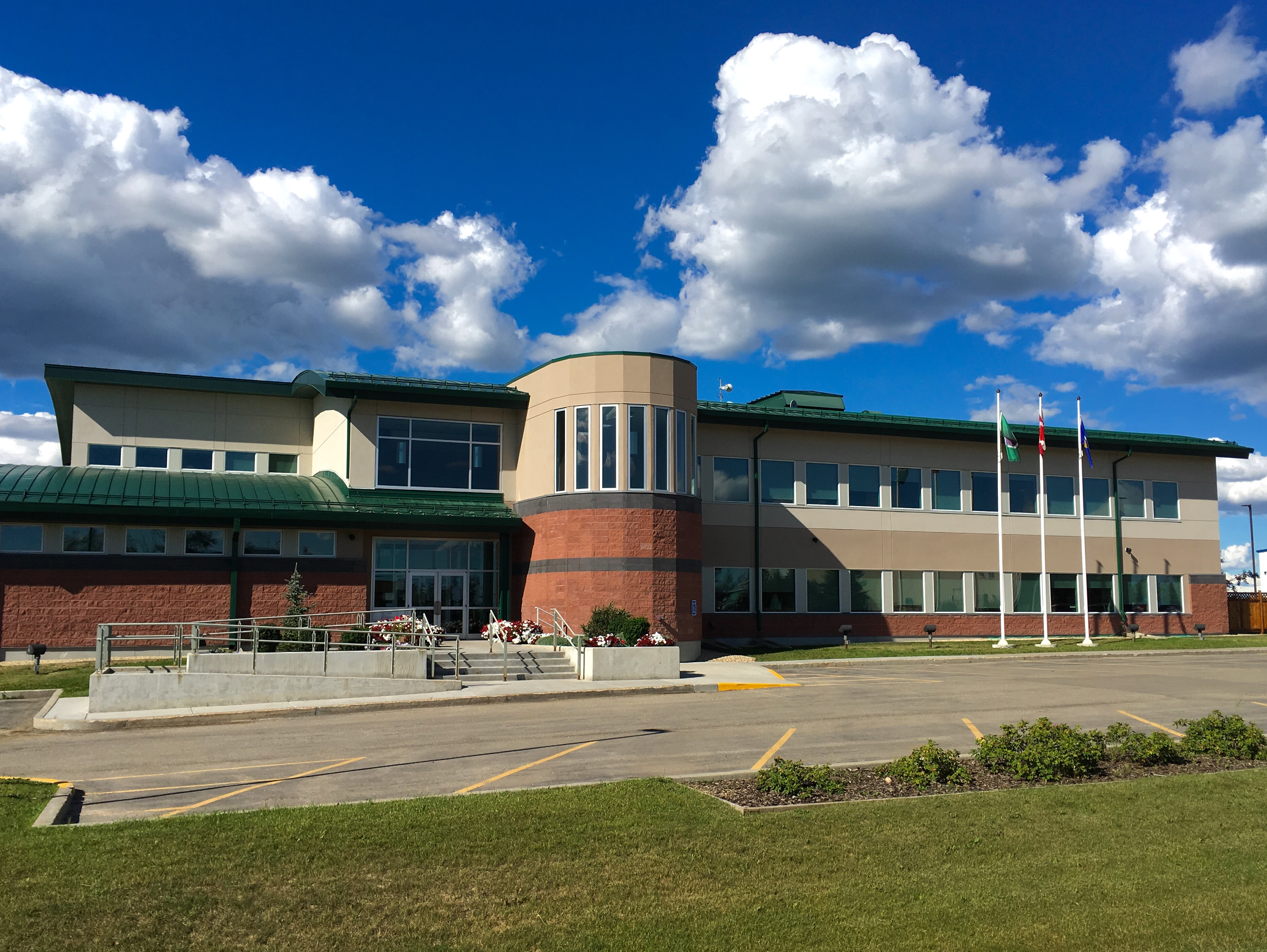 Municipal District of Greenview's main administration building circa August 2017.